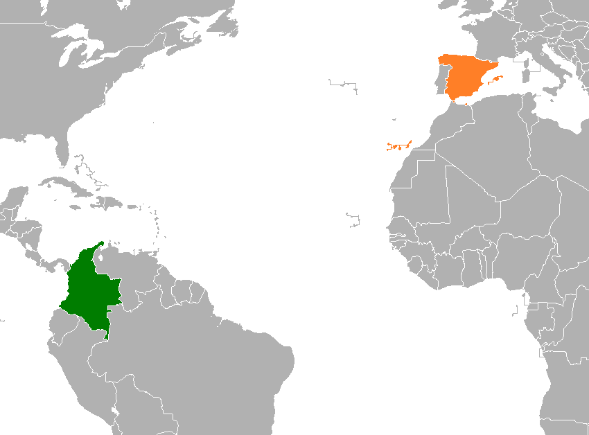 Map showing locations of Colombia and Spain